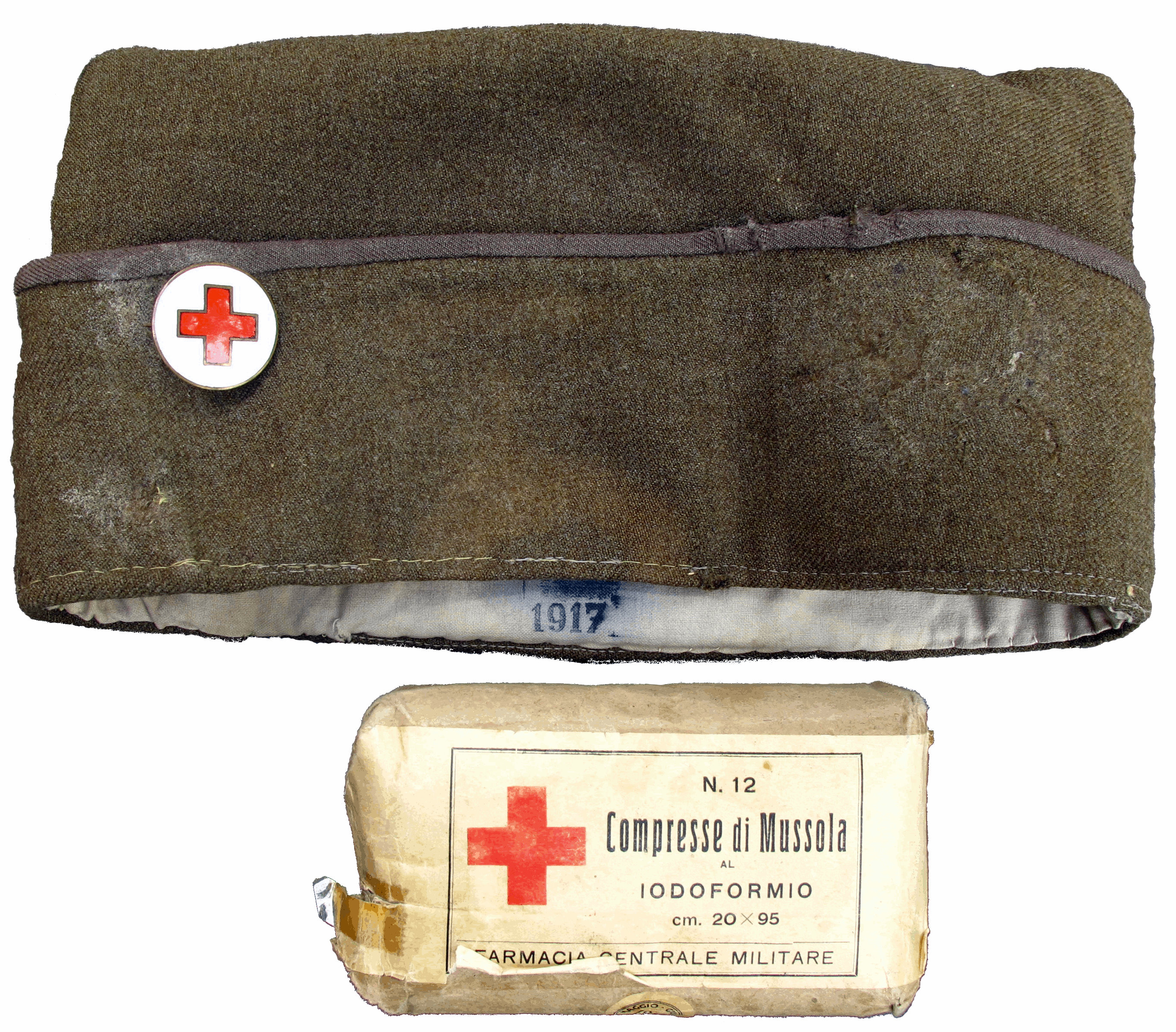 Paramedics cap of the Italian army in 1917 and a wound compress (side sticker 1916) with the words "Nr. 12 Compresse di Mussola al Iodoformio cm. 20 X 95. Farmacia Centrale Militare." The Red Badge is from the Austria-Hungarian army. According to an Austrian private collection, which owns the Garrison cap they originally belonged to the American writer Ernest Hemingway. He was a driver of the American Field Service, a type of medical transport group in the Battles of the Isonzo of the 1st World War. His war experiences there, he described in his novel A Farewell to Arms. In the interwar period, he was often go fishing on the Isonzo, where he had a cottage. For this environment, the cap is according to tradition. The already-eaten by moths field gray cap was carefully restored.